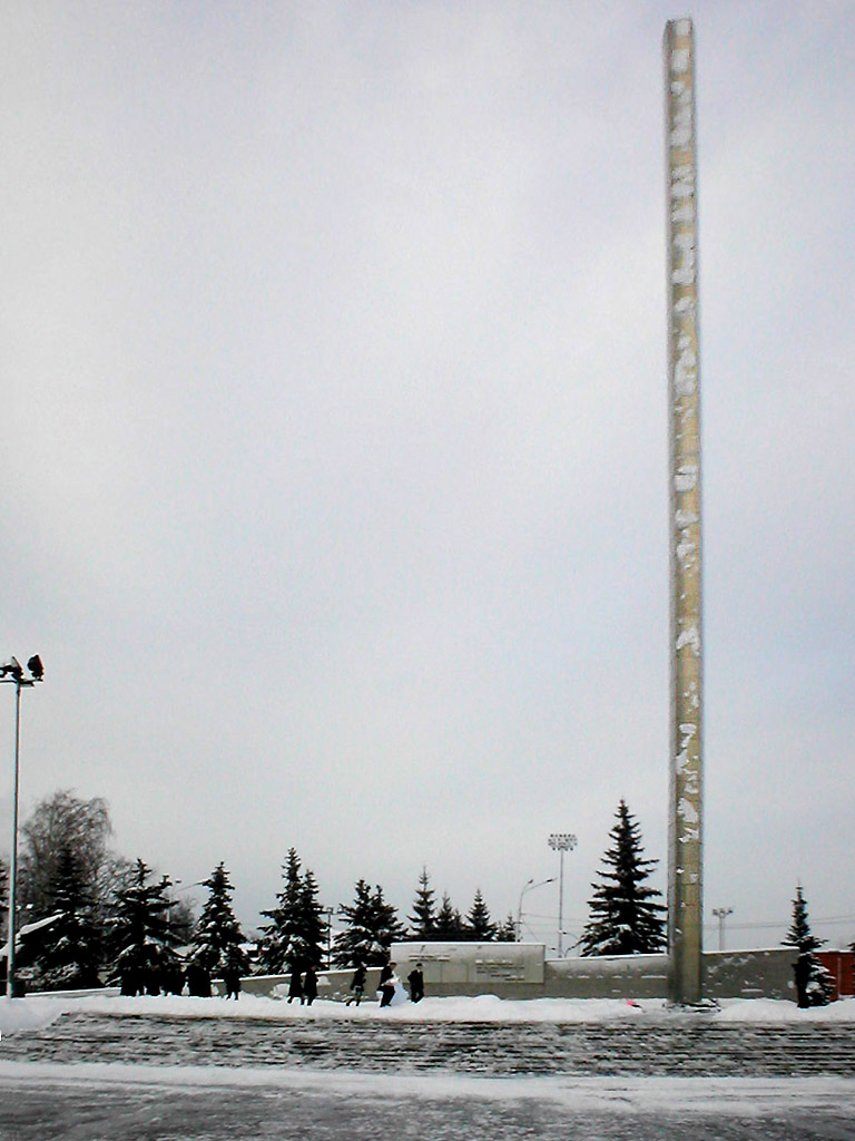 WWII and Soviet power heroes memorial complex on Gorky park square in Kazan